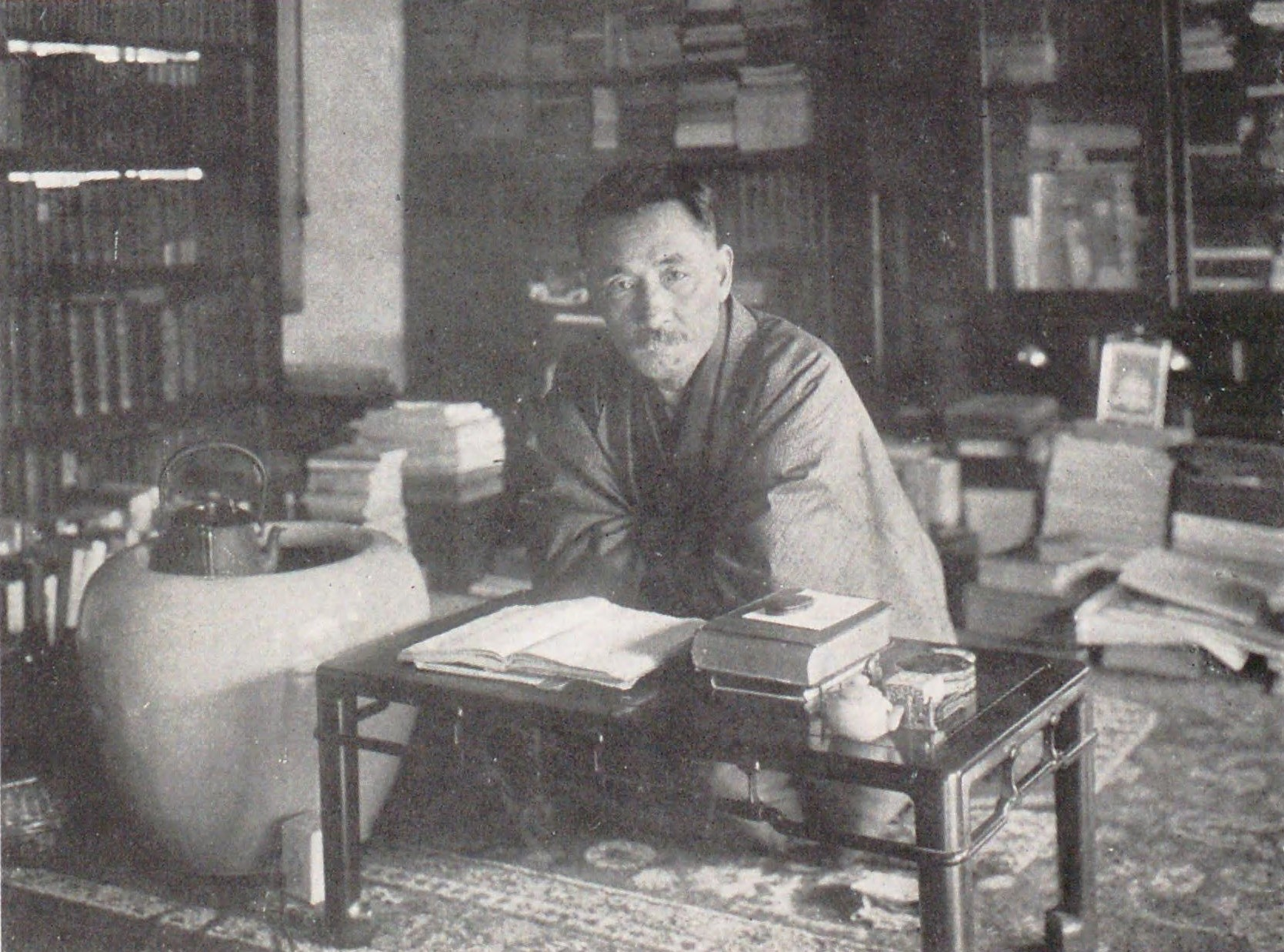 Natsume Soseki at Soseki Sanbo in December 1914.